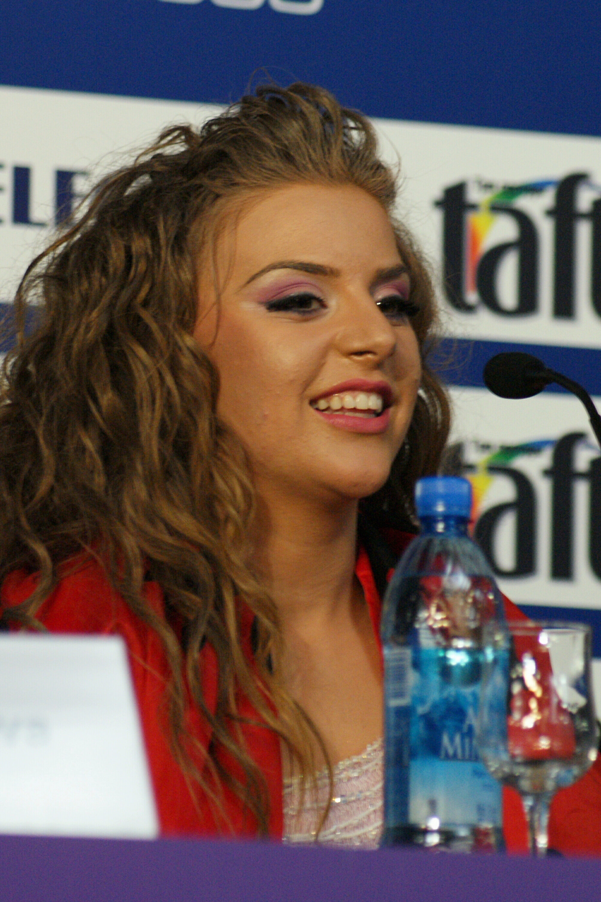 Kejsi Tola at a Eurovision 2009 press conference in Moskou